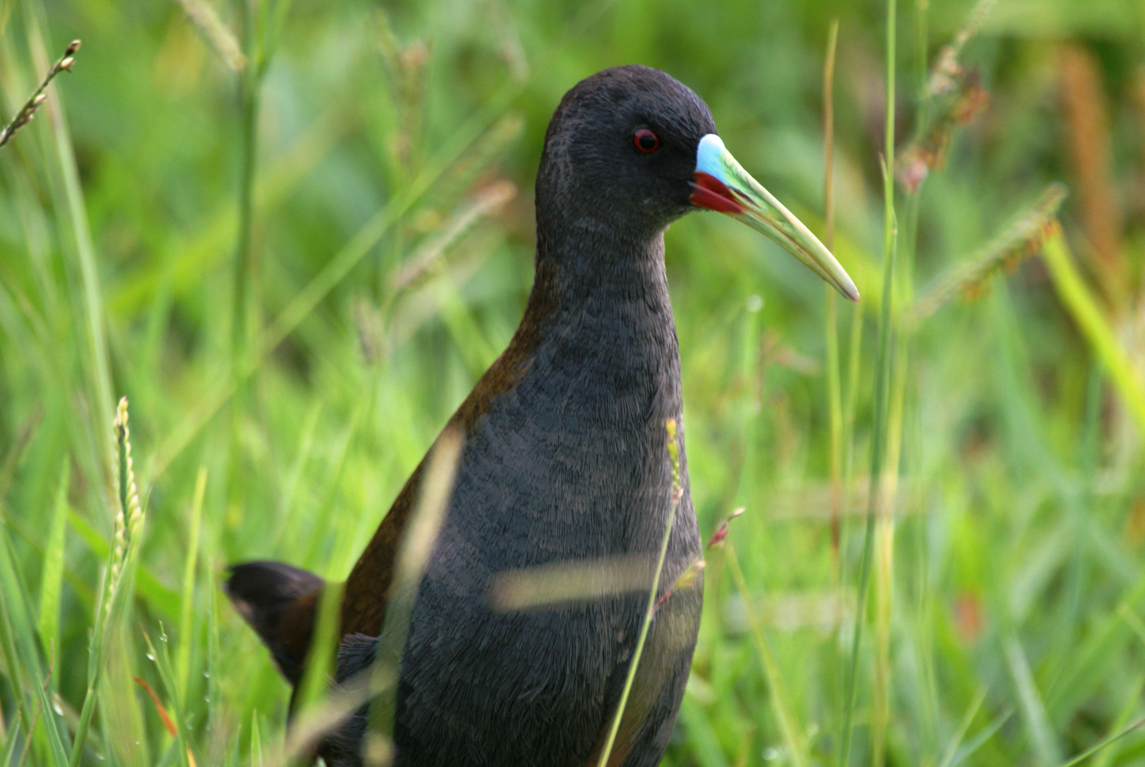 A Plumbeous Rail at Iguacu National Park, Paraná State, Brazil.